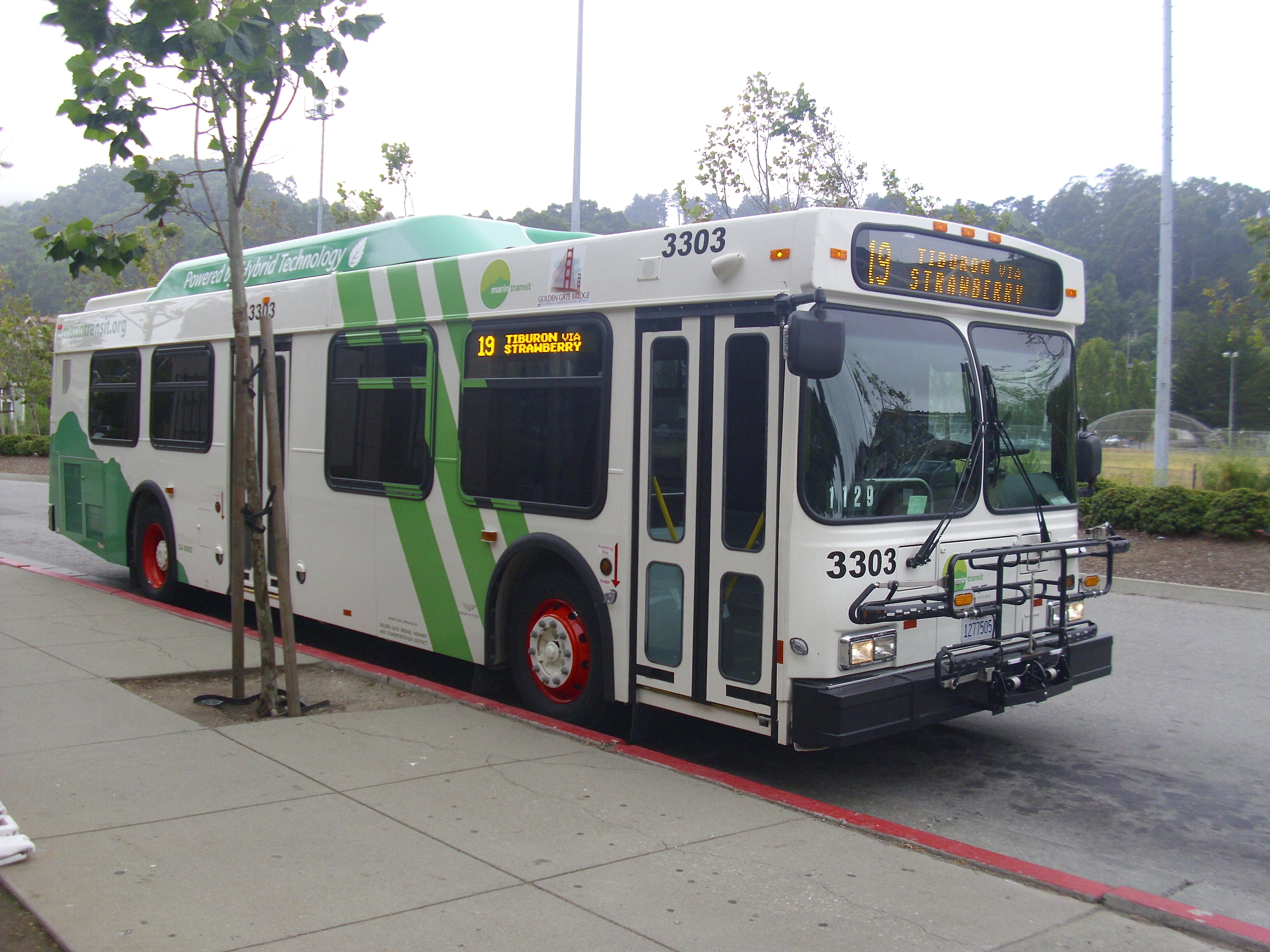 A Marin Transit New Flyer 35-foot low floor hybrid bus operating as a Route 19 to Tiburon at Marin City. This bus operates using hybrid-electric technology, allowing it to save fuel costs by using electric power when used in city streets.